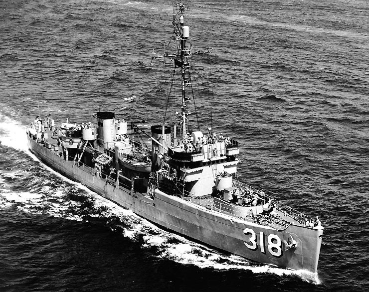 USS Devastator circa 1952, shortly after she was recommissioned for Korean War service.